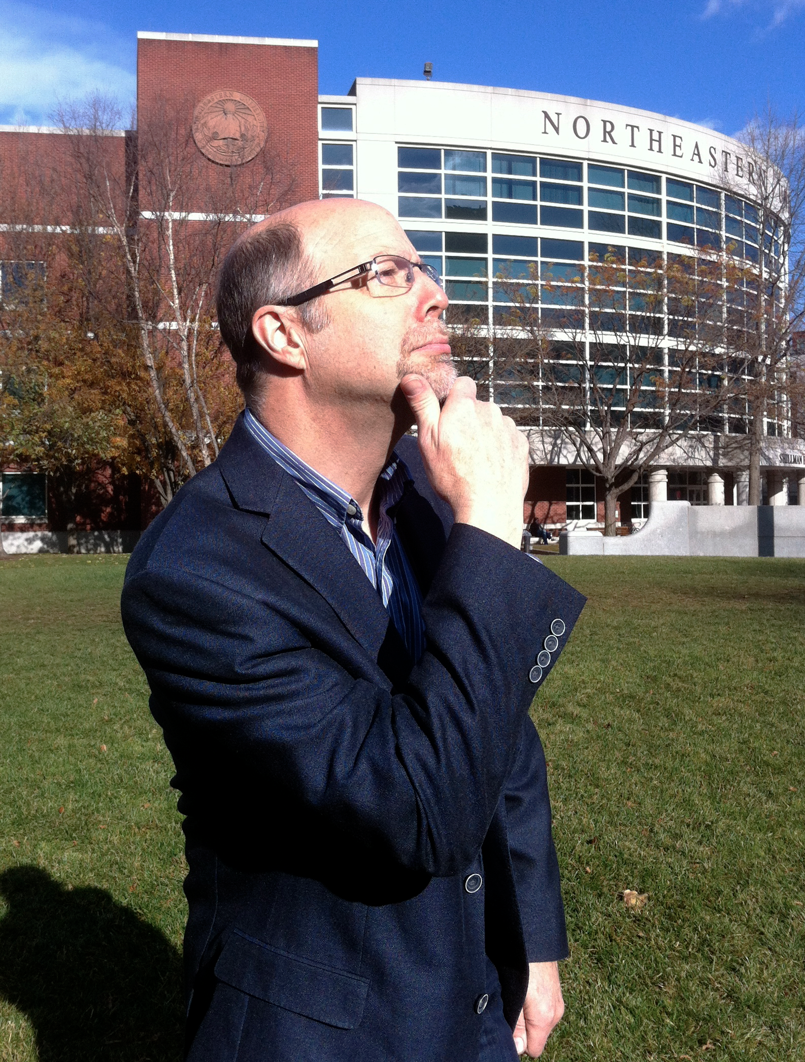 Photo of Brad Hatfield at Northeastern University.